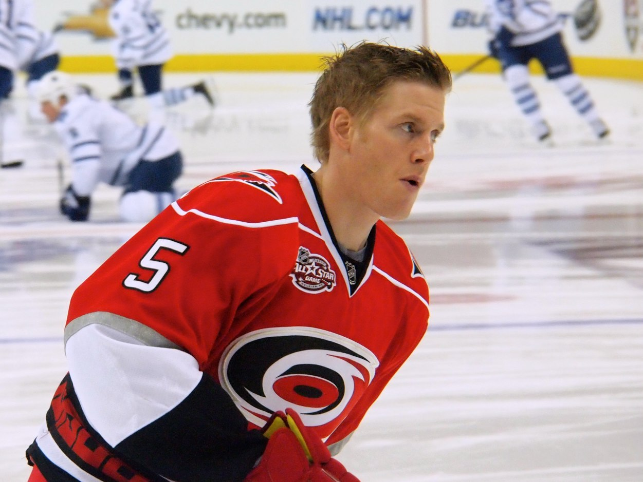 Bryan Allen, Canadian ice hockey player